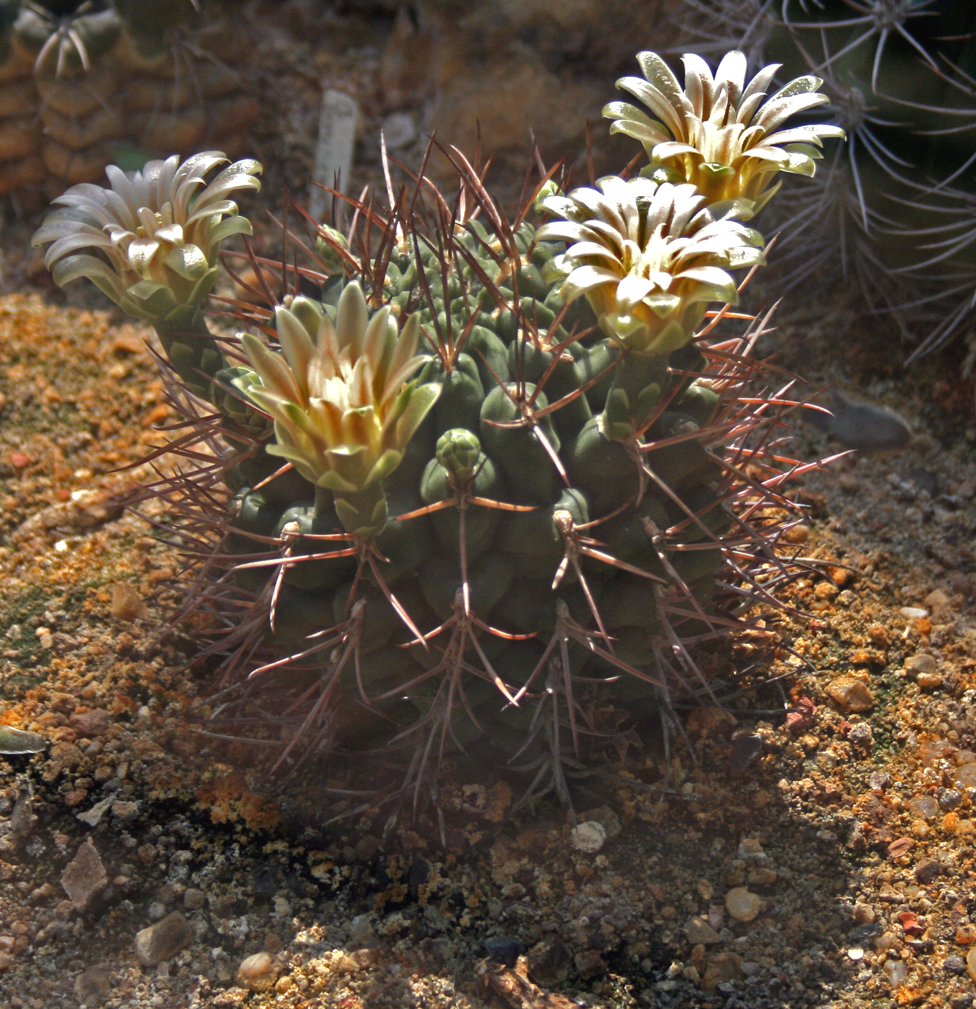 Cactus Gymnocalycium bodenbenderianum from the Botanical Gardens of Charles University, Prague